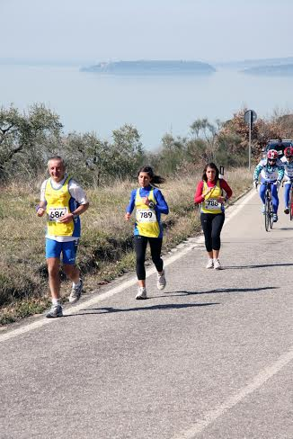 Strasimeno ultramaratona